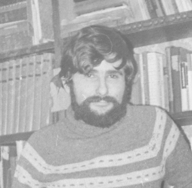 Prof. Vladimir Orel in 1980